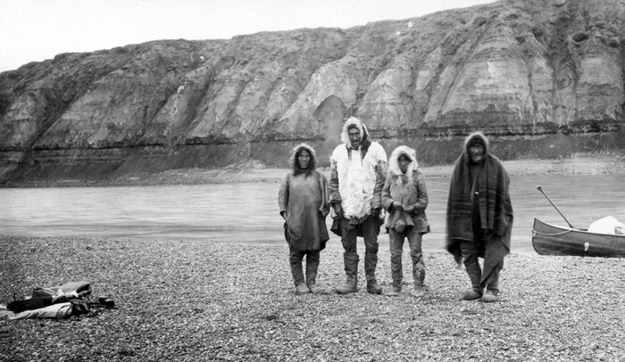 Colville River. Pliocene fossil locality in Colville River bluff (Colville Series), Tertiary coastal plain. Latitude 70 degrees, 1 minute; looking northwest. Native Esquimaux Eskimo family in foreground. Anaktuvuk district, Northern Alaska region. Alaska. 1901. Plate 14-A in U.S. Geological Survey. Professional paper 20. 1904. Image file: /htmllib/btch238/btch238j/btch238z/sfc01005.jpg